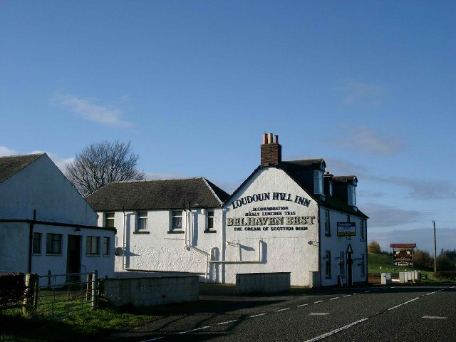 Loudoun Hill Inn. The 1940s OS map shows a small lochan (is that tautological?)opposite this inn - there is no sign of the lochan now